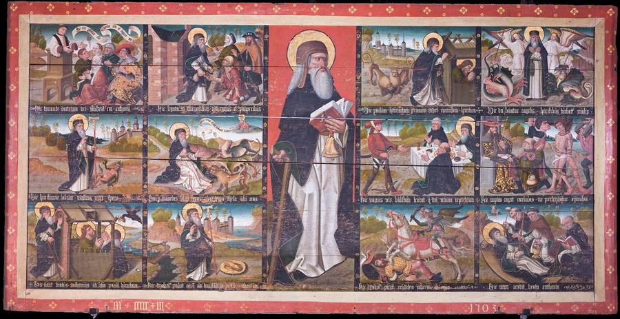 Life of St. Anthony the Great, Dom zu Lübeck